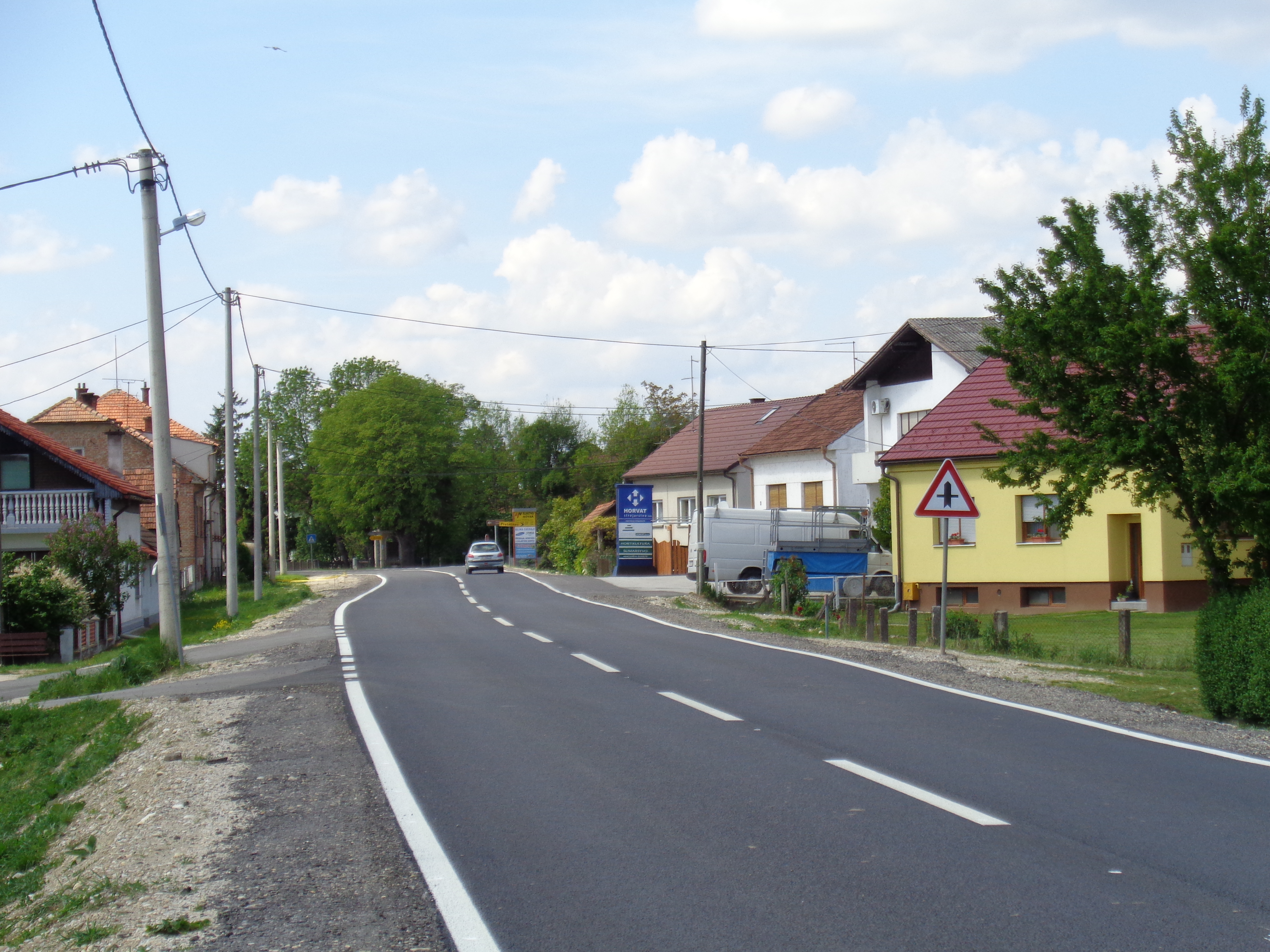 Gornji Hrašćan (Međimurje County, Croatia) - main street